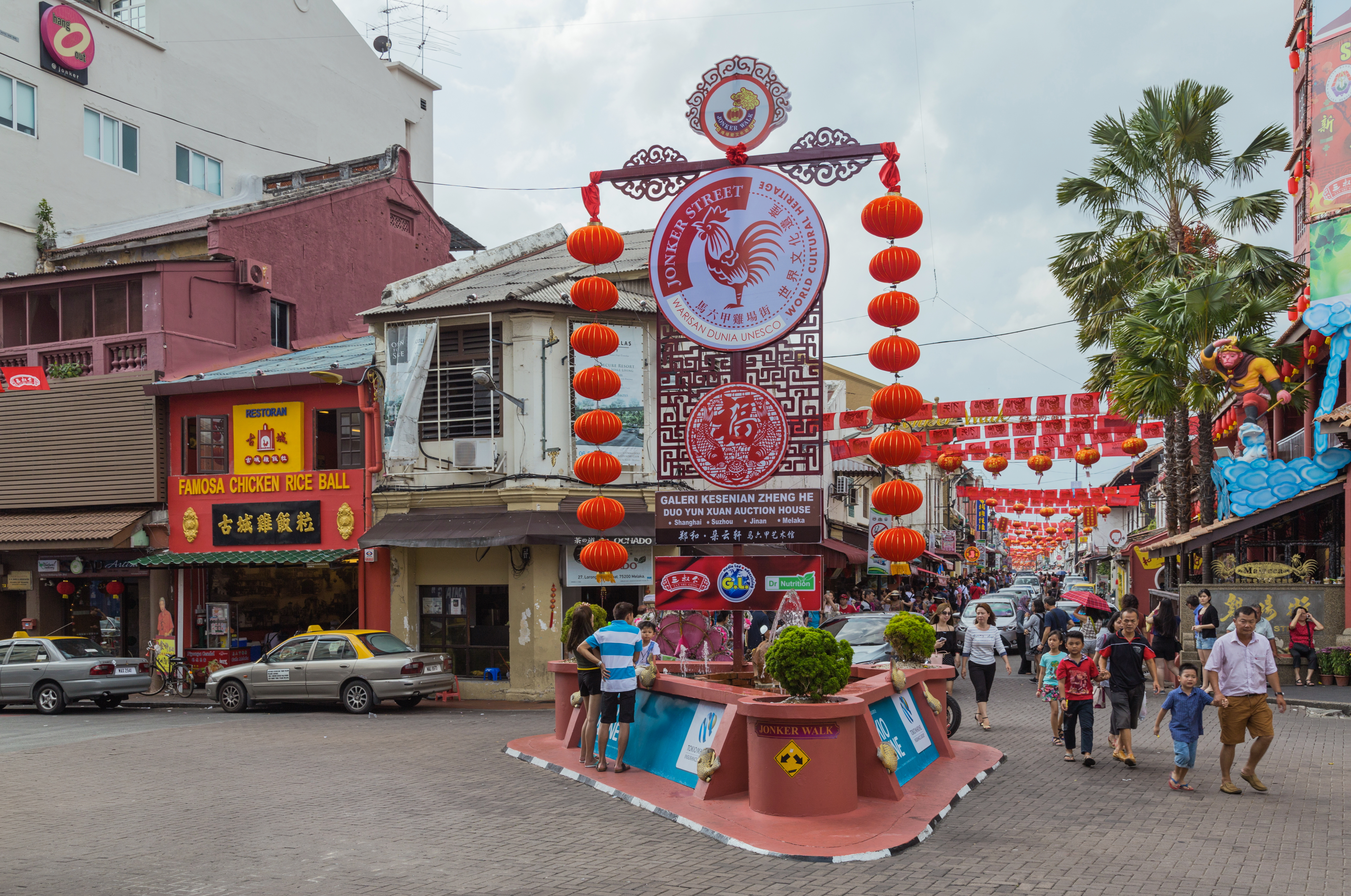 Entrance to the Jonker Walk - famous Chinatown district. Malacca City, Malacca, Malaysia.